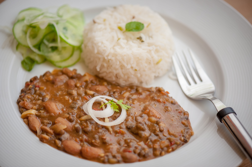 Dal Makhani is a spicy and heavy dal preparation a celebrated delicacy from Punjab, made with a combination of rajma(kidney beans) and whole black gram.